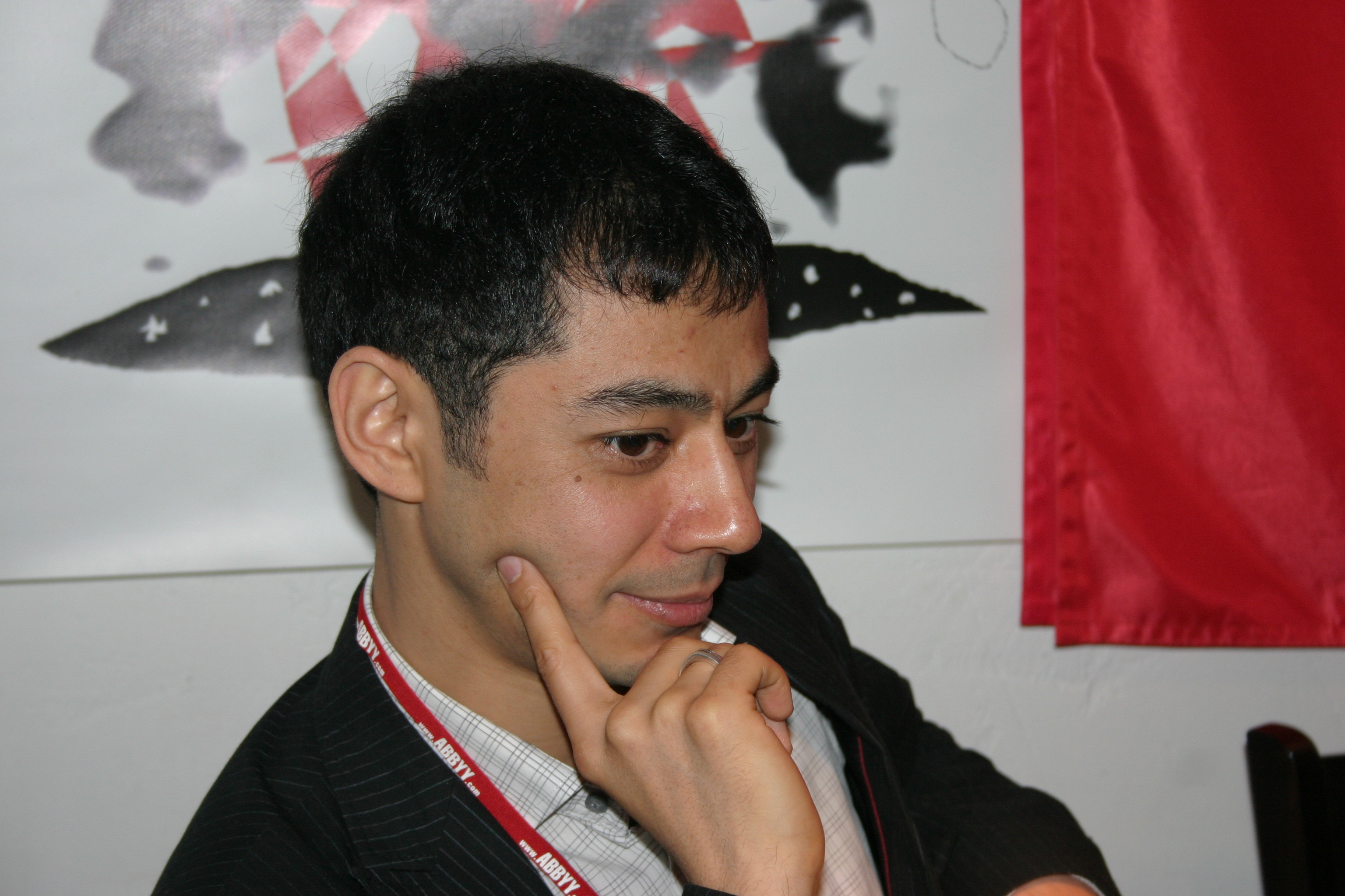 Photo of David Yang (founder of ABBYY)